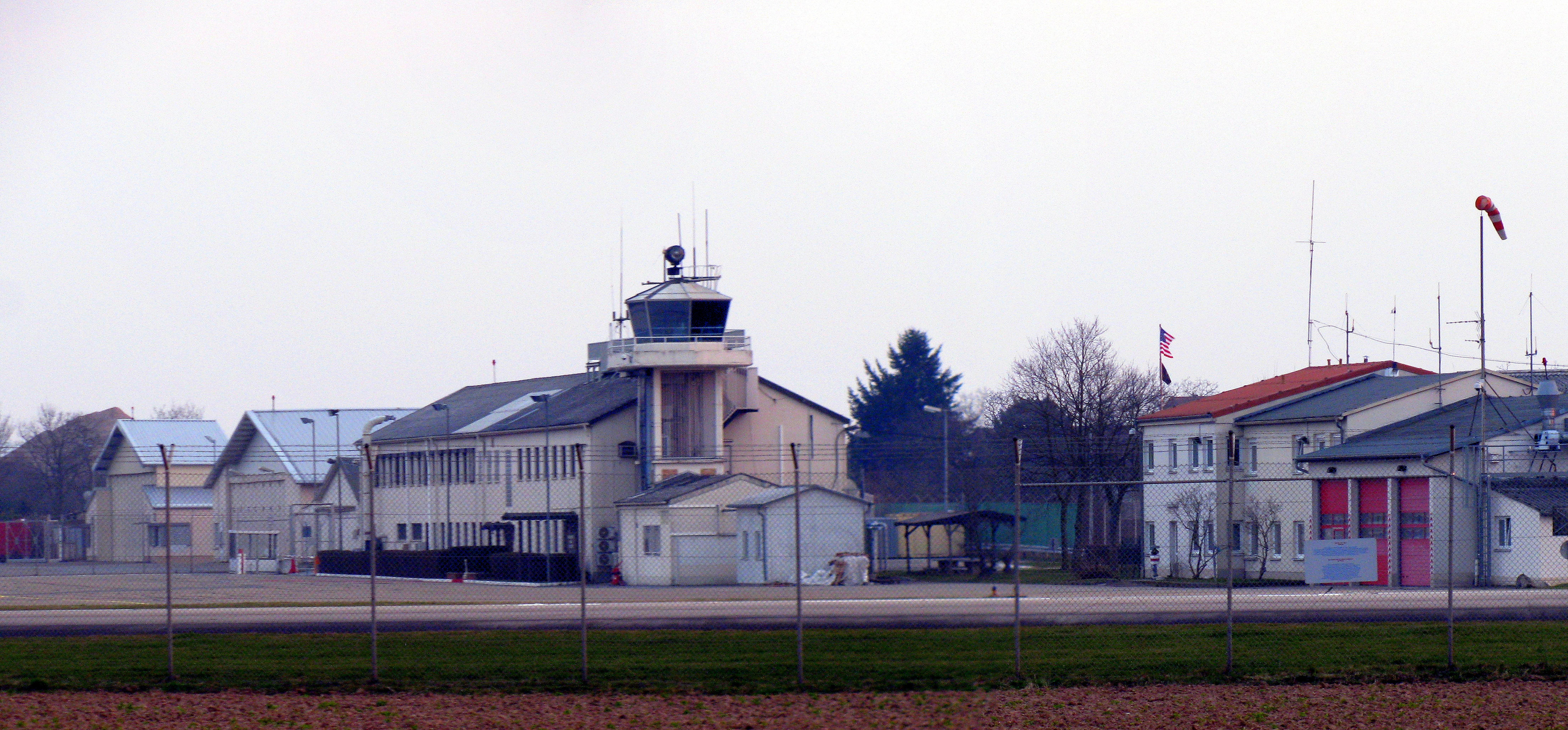 view from north-east onto the Heidelberg AHP Heliport (ICAO-Code: ETIE) in Pfaffengrund, a district of Heidelberg, Germany